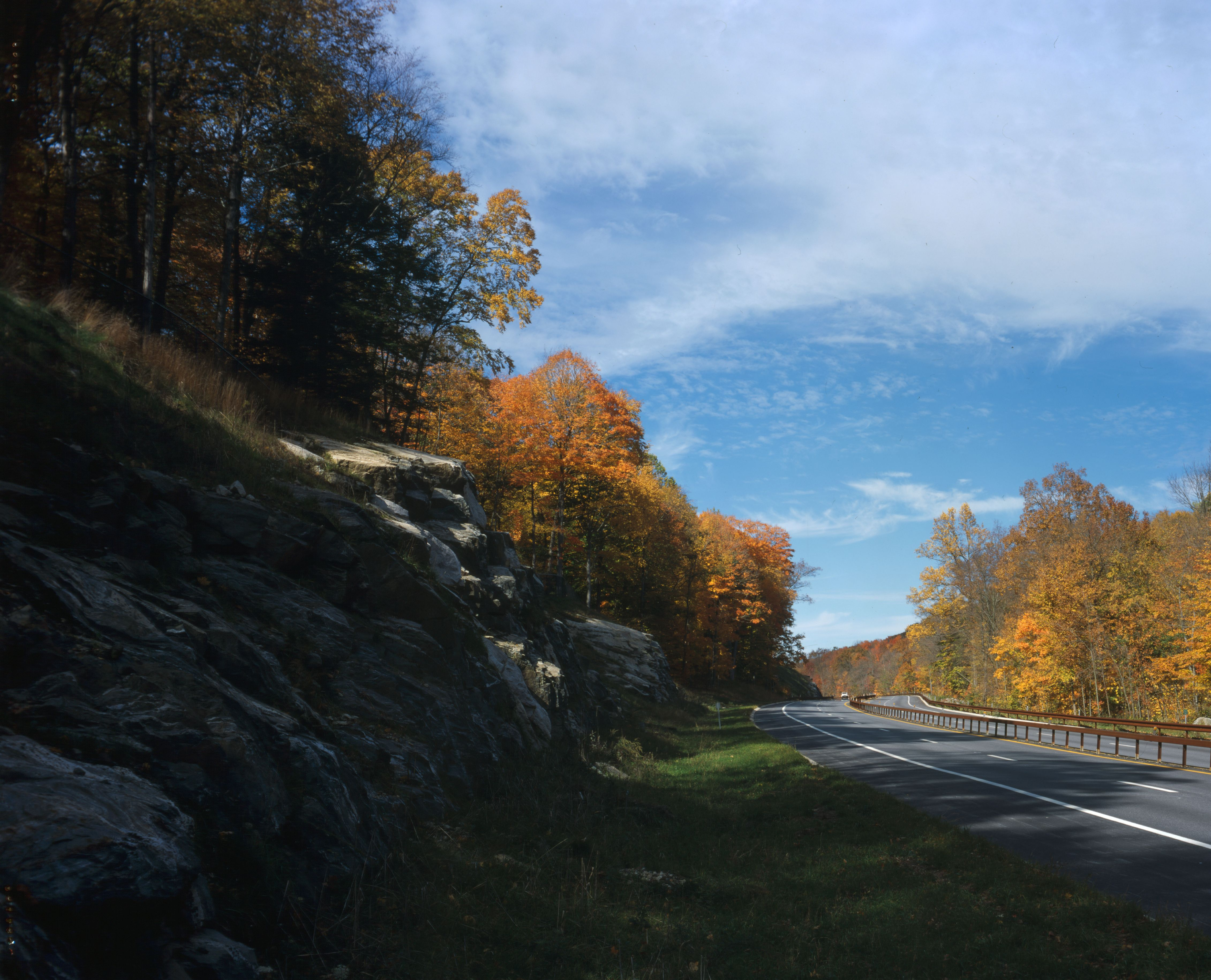 Rock cuts along the Taconic State Parkway as it climbs north from Peekskill Hollow road, Putnam County mile marker 106.7, view NW.